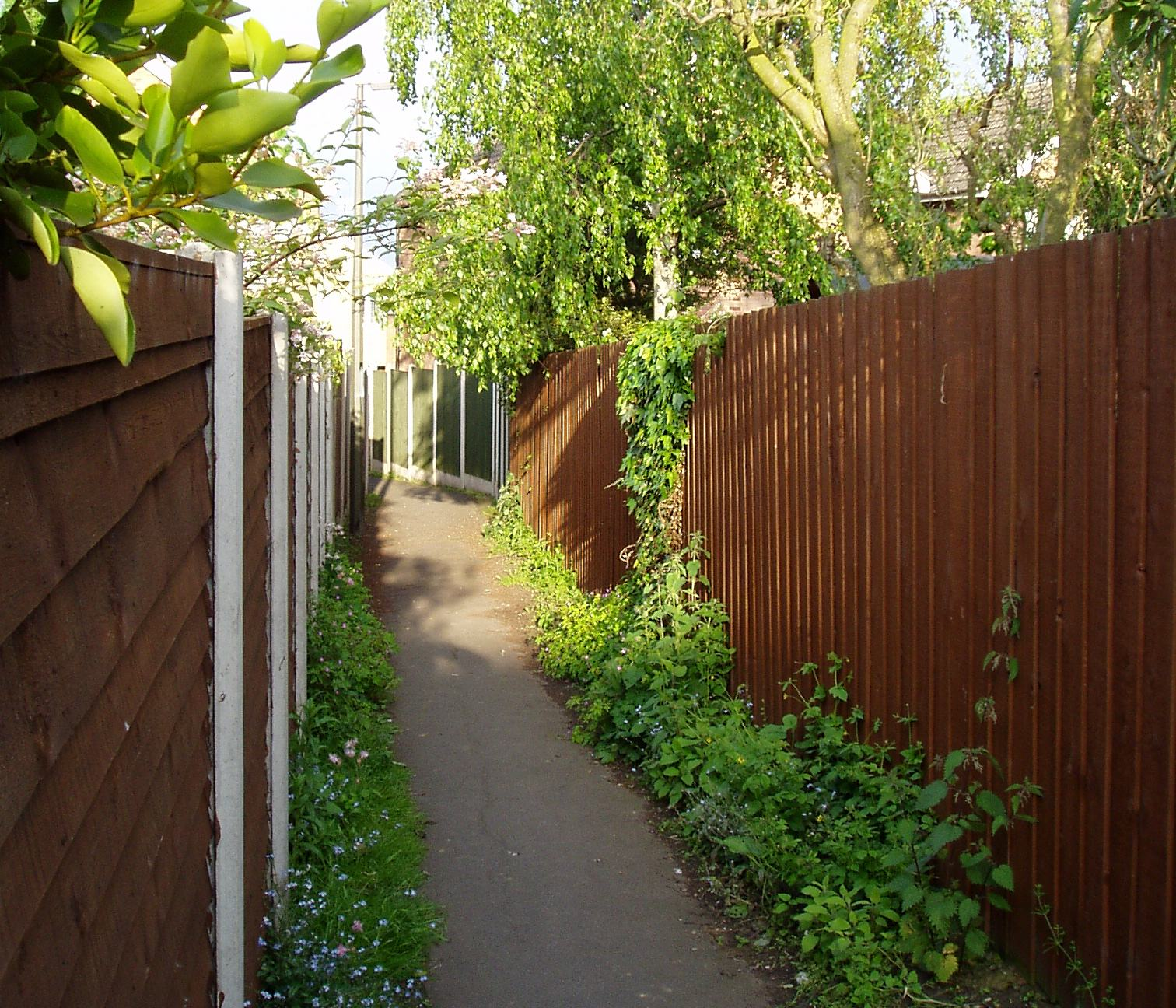 Gitty between new buildings in Ockbrook, Derbyshire, England.